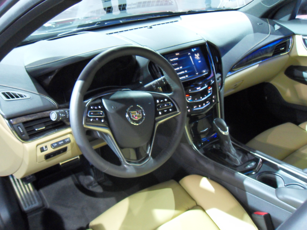 A 2013 Cadillac ATS 2.0T with caramel/jet black leather interior featuring dark olive ash wood trim photographed at the 2012 Canadian International Auto Show